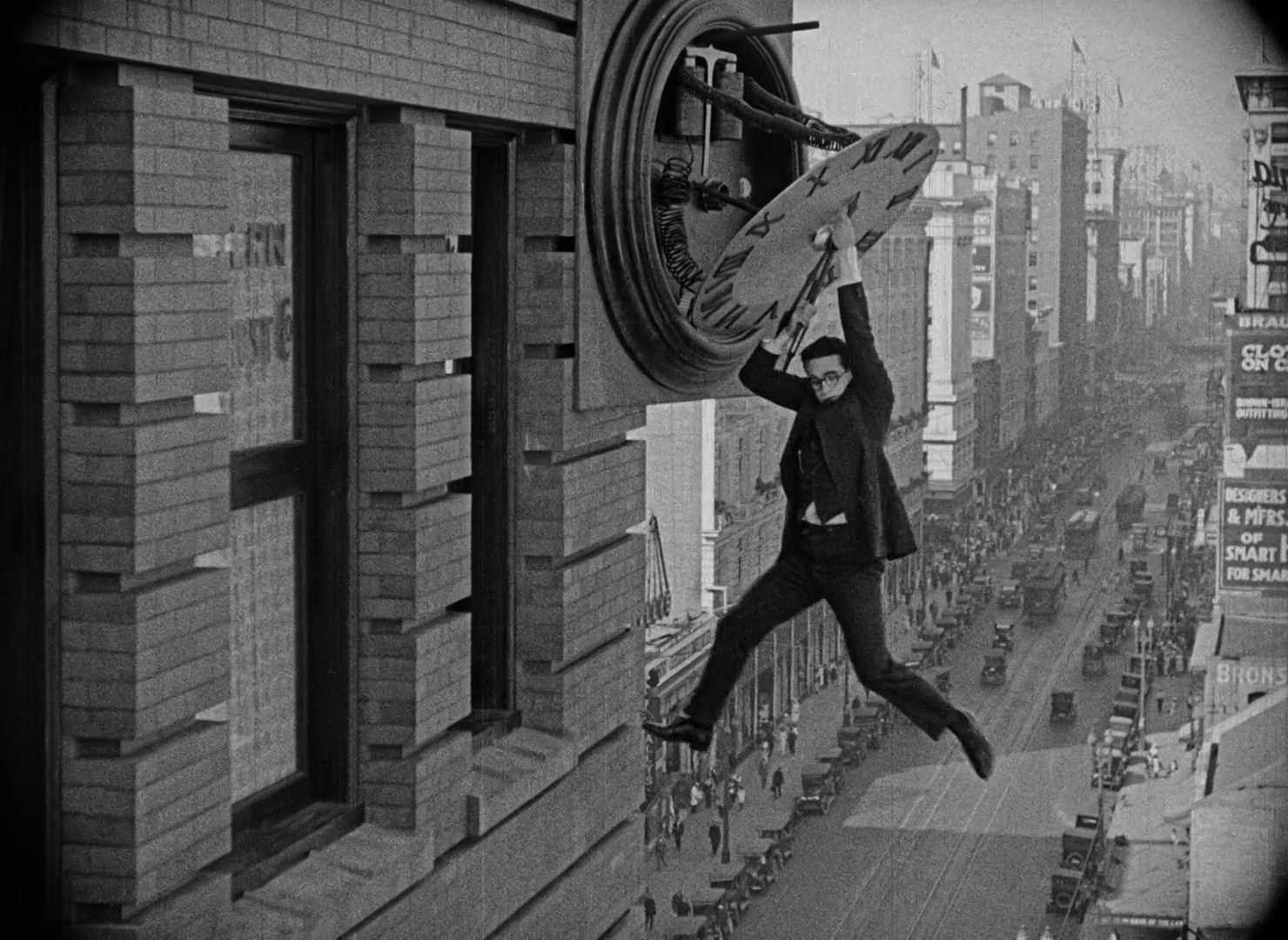 Screenshot of the film Safety Last! (1923), showing Harold Lloyd in the climactic scene.